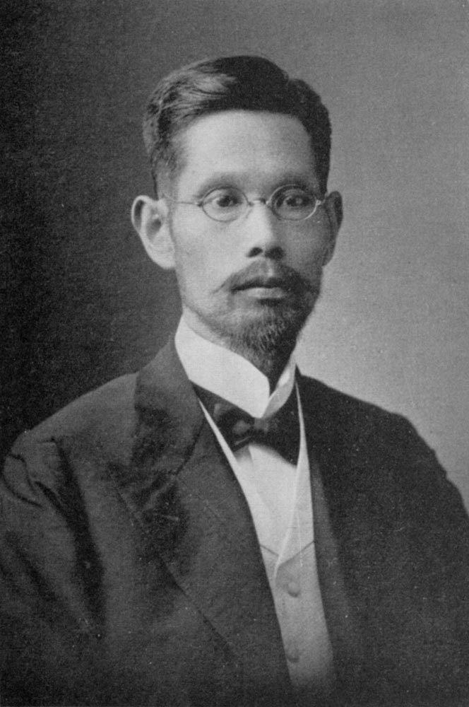 Baron Hiromichi Tsuda.